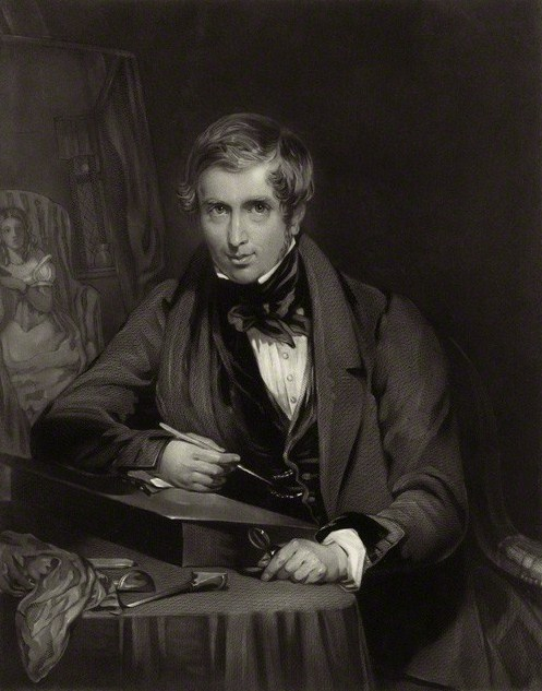 Portrait of Robert Graves (1798–1873), English line engraver.